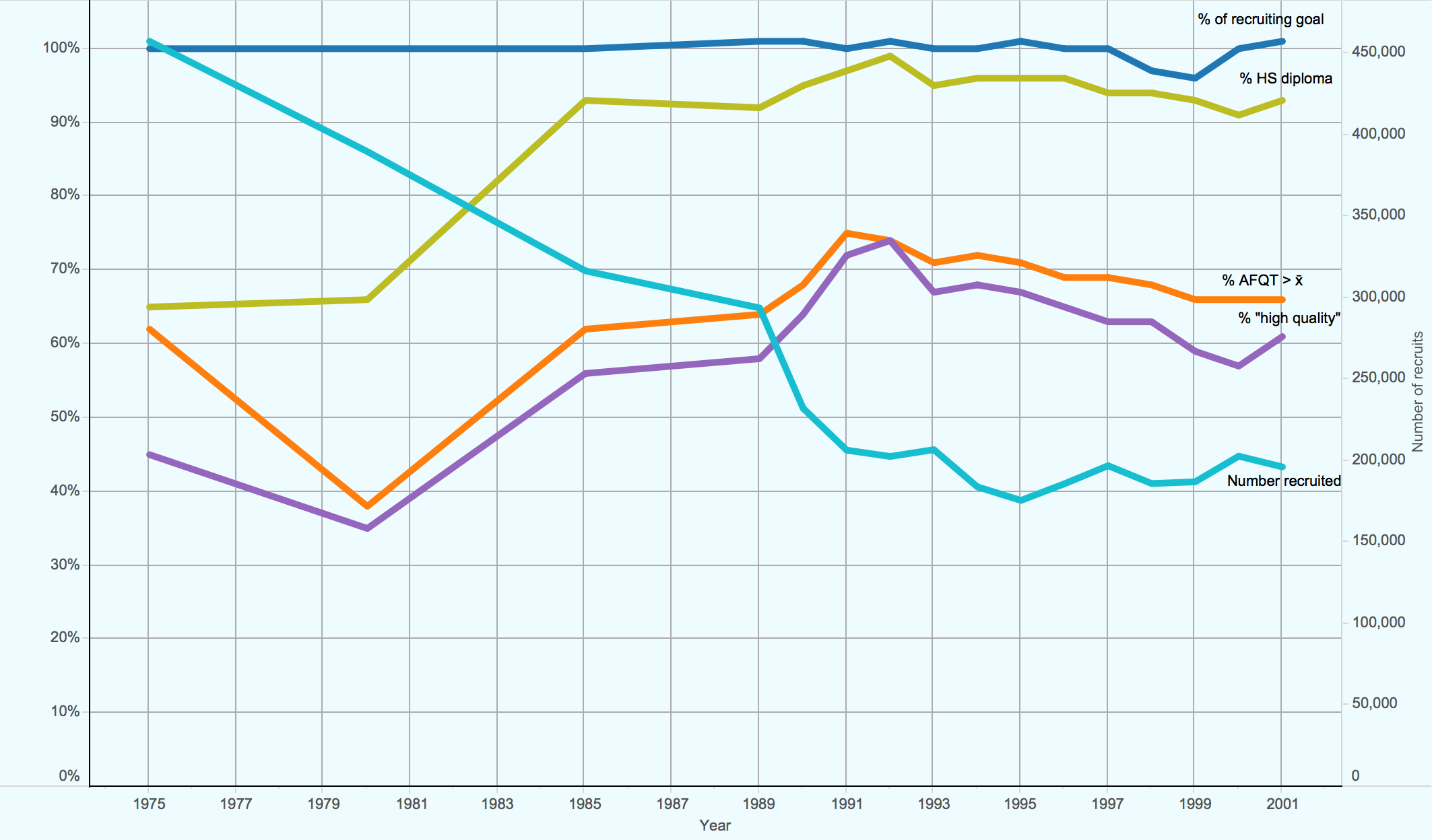 United States armed services recruiting numbers, recruiting goals, percentage with high school diploma, percentage with above average AFQT, and percentage of recruits called "high quality", i.e. both AFQT over 60th percentile and H.S. diploma. Source Kapp, Lawrence (February 25, 2002) Recruiting and Retention in the Active Component Military: Are There Problems?[1], Defense Foreign Affairs, Defense, and Trade; Congressional Research Service, The Library of Congress